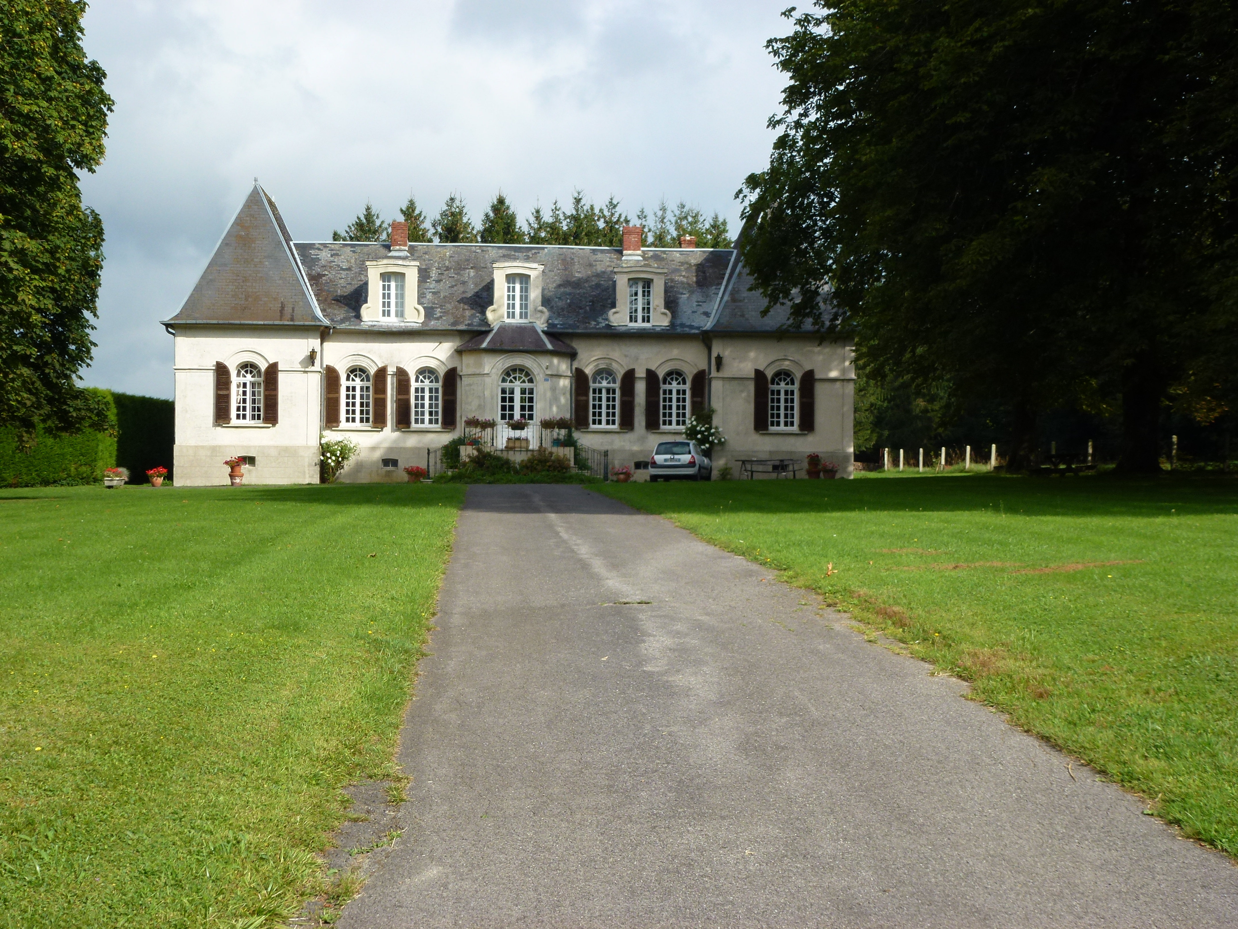 Watigny (Aisne) château de la Cloperie